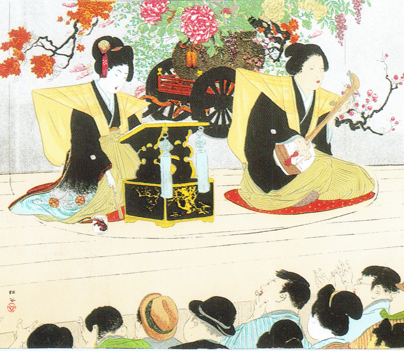 Two female gidayu, Takemoto Kyōko and Takemoto Kyōshi. 1899